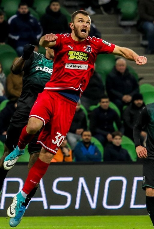 Soslan Takazov with FC Tambov in a game against FC Krasnodar.